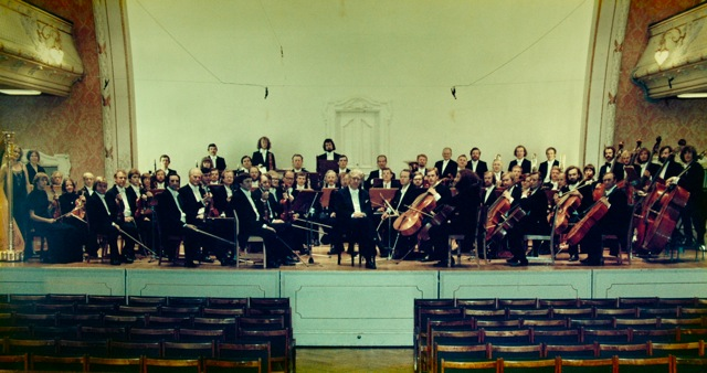 The Trondheim Symphony Orchestra with its conductor Finn Audun Oftedal, photographed in The Freemasonry building in Trondheim Norway, approx 1980